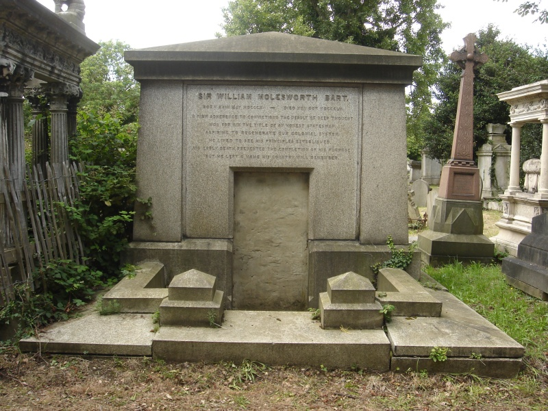 Sir William Molesworth, 8th Baronet mausoleum, Kensal Green Cemetery, London